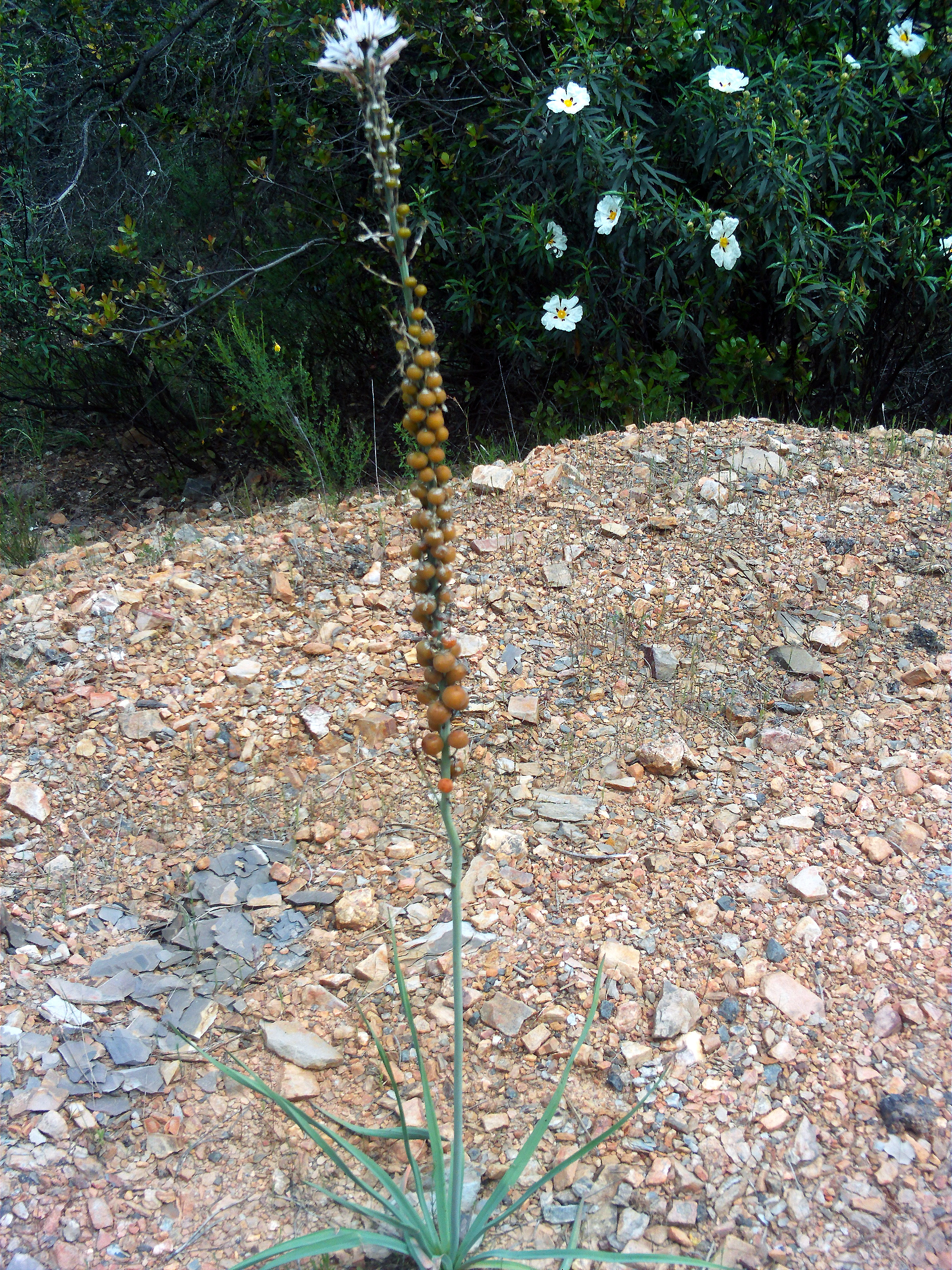 Asphodelus cerasiferus fruits and flowers, Sierra Madrona, Spain